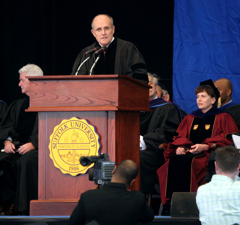 Former New York City Mayor Rudy Giuliani speaking at Suffolk University